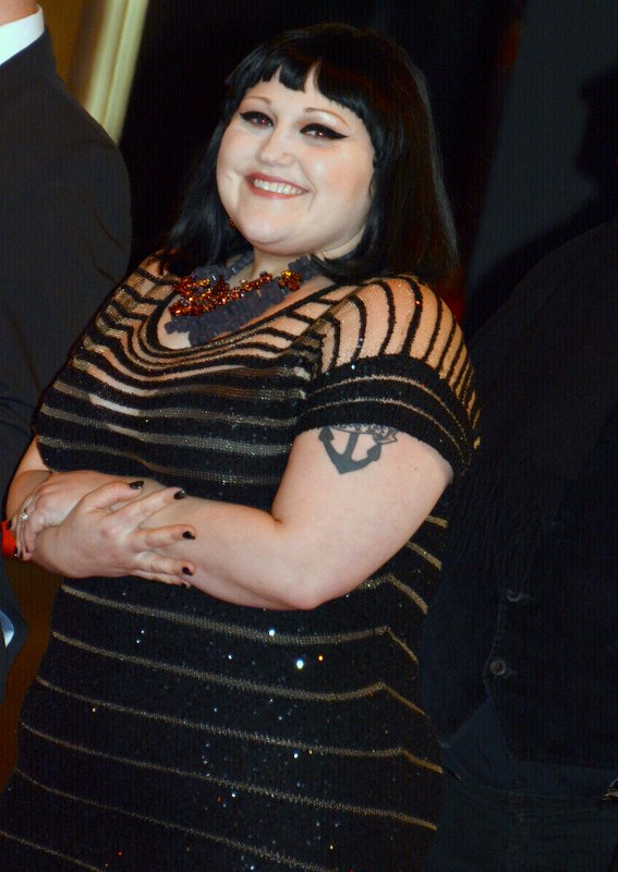 Beth Ditto in Paris at the César Awards ceremony